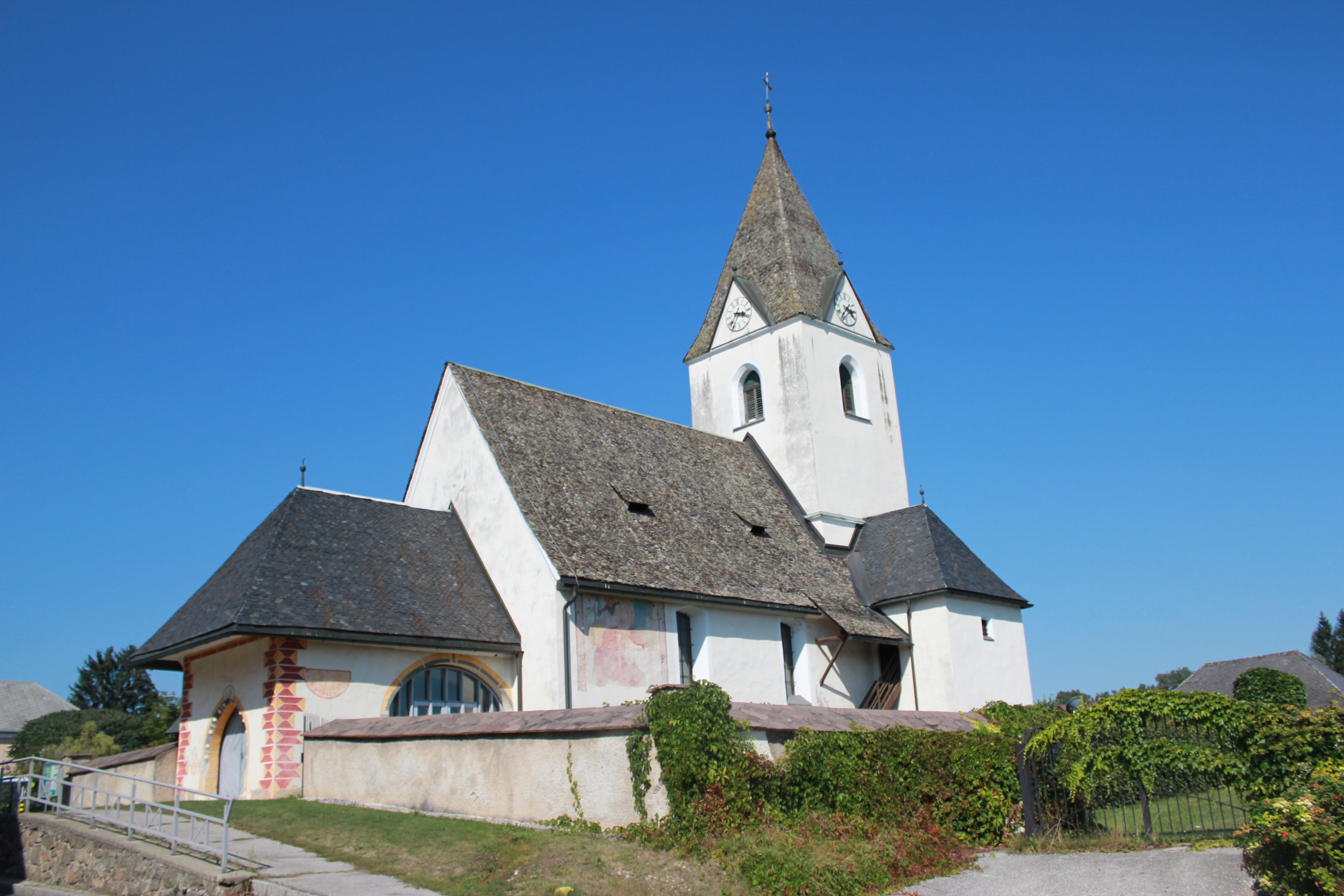 Church of Poggerdorf